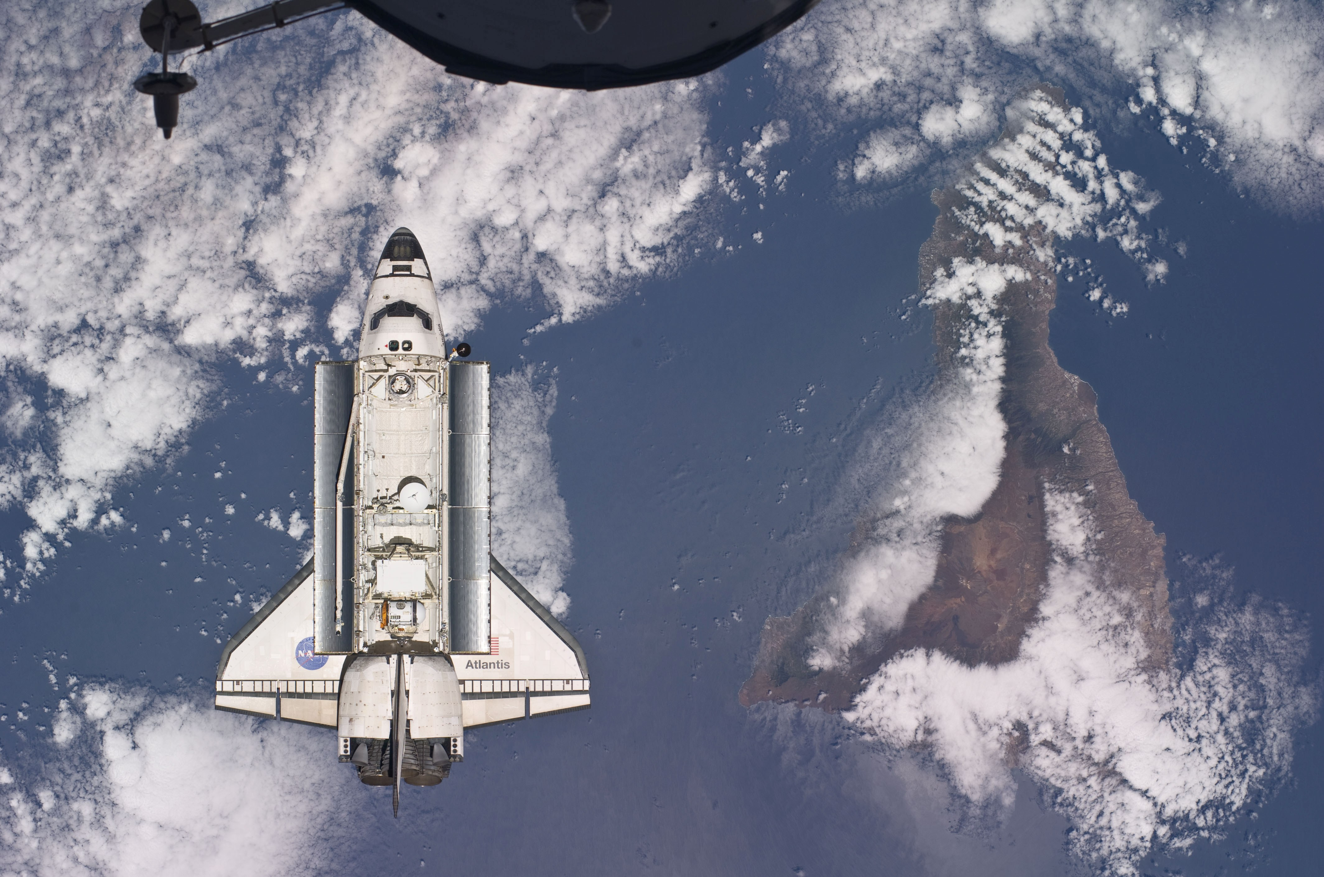 Backdropped by a colorful Earth, space shuttle Atlantis is featured in this image photographed by an Expedition 23 crew member as the shuttle approaches the International Space Station during STS-132 rendezvous and docking operations. Docking occurred at 9:28 a.m. (CDT) on May 16, 2010. A portion of a docked Russian spacecraft is visible at top. Tenerife in the Canary Island chain is visible below